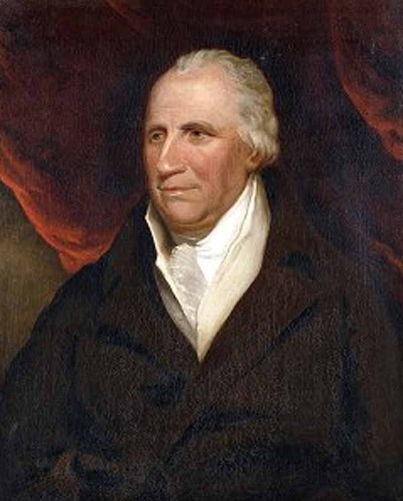 Richard Arkwright Junior (1755-1843), owner of Sutton Scarsdale Hall